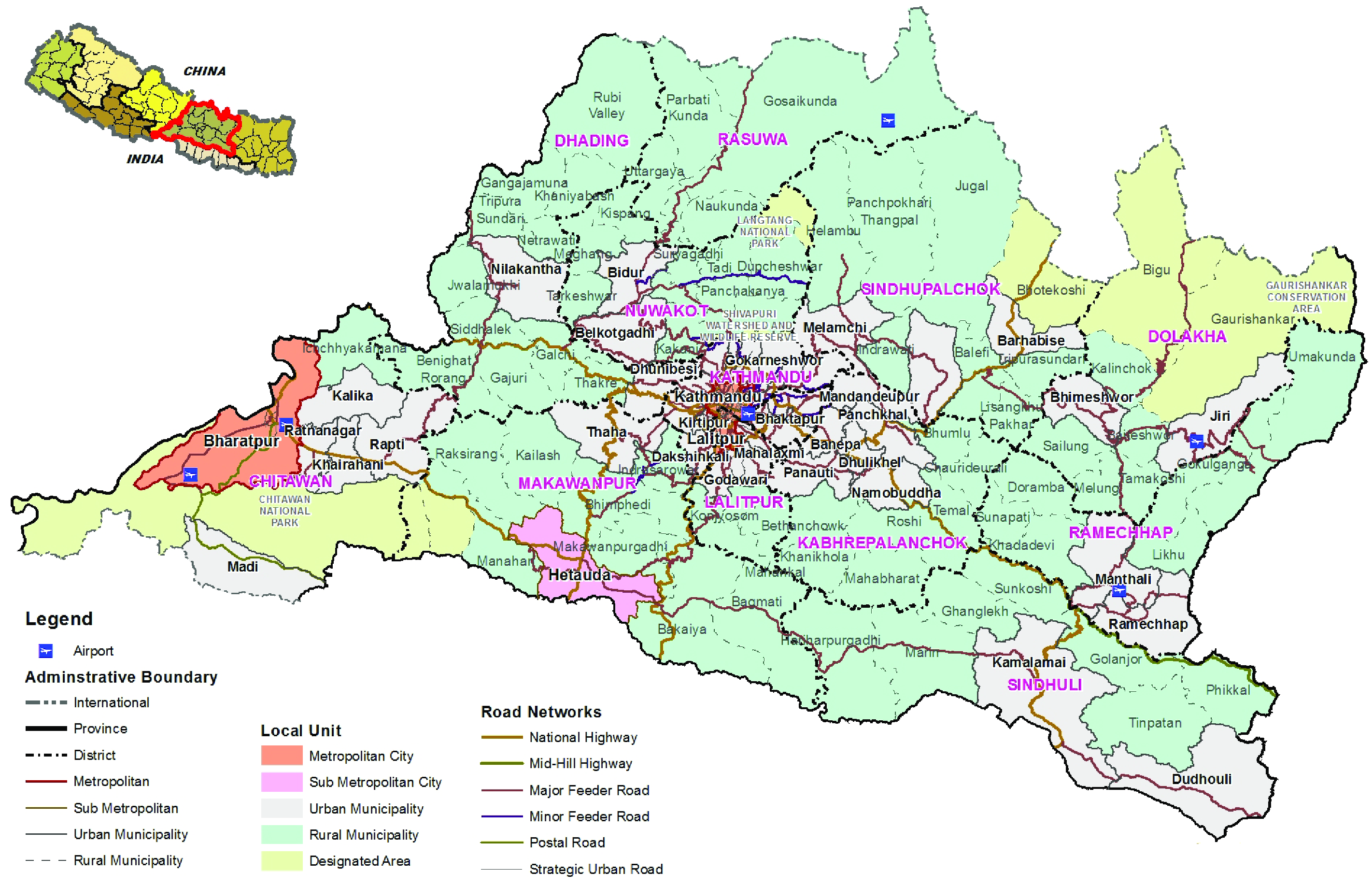 Bagmati pradesh